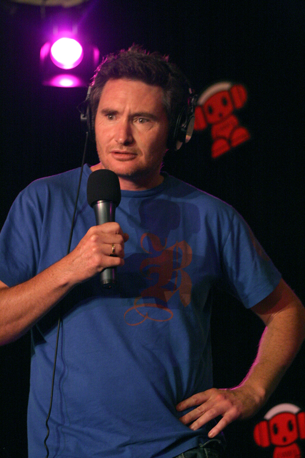 A photograph of Dave Hughes during his live breakfast show in 2009.